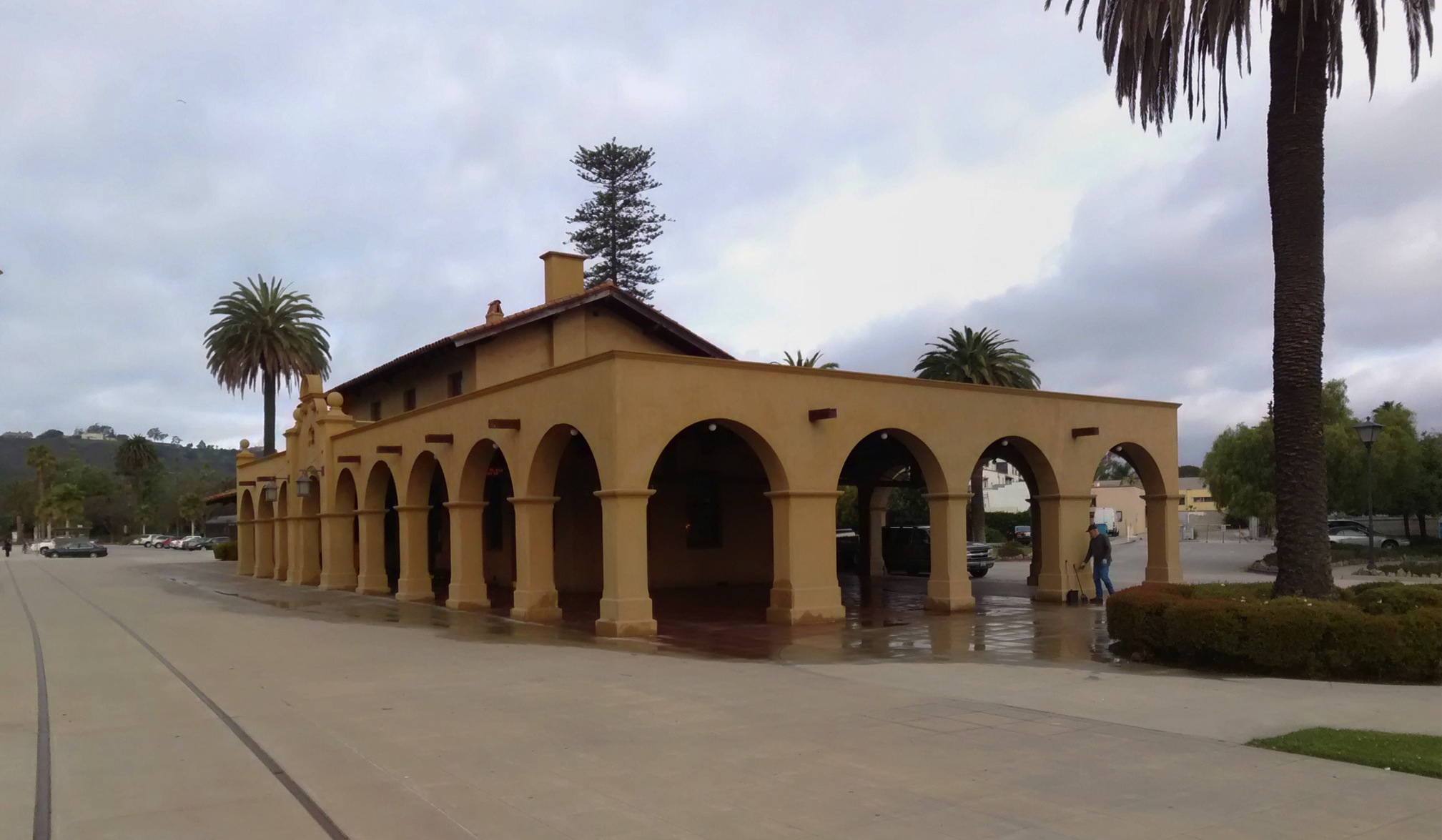 Santa Barbara Railway Station, State Street, Santa Barbara, California, Apr. 2014